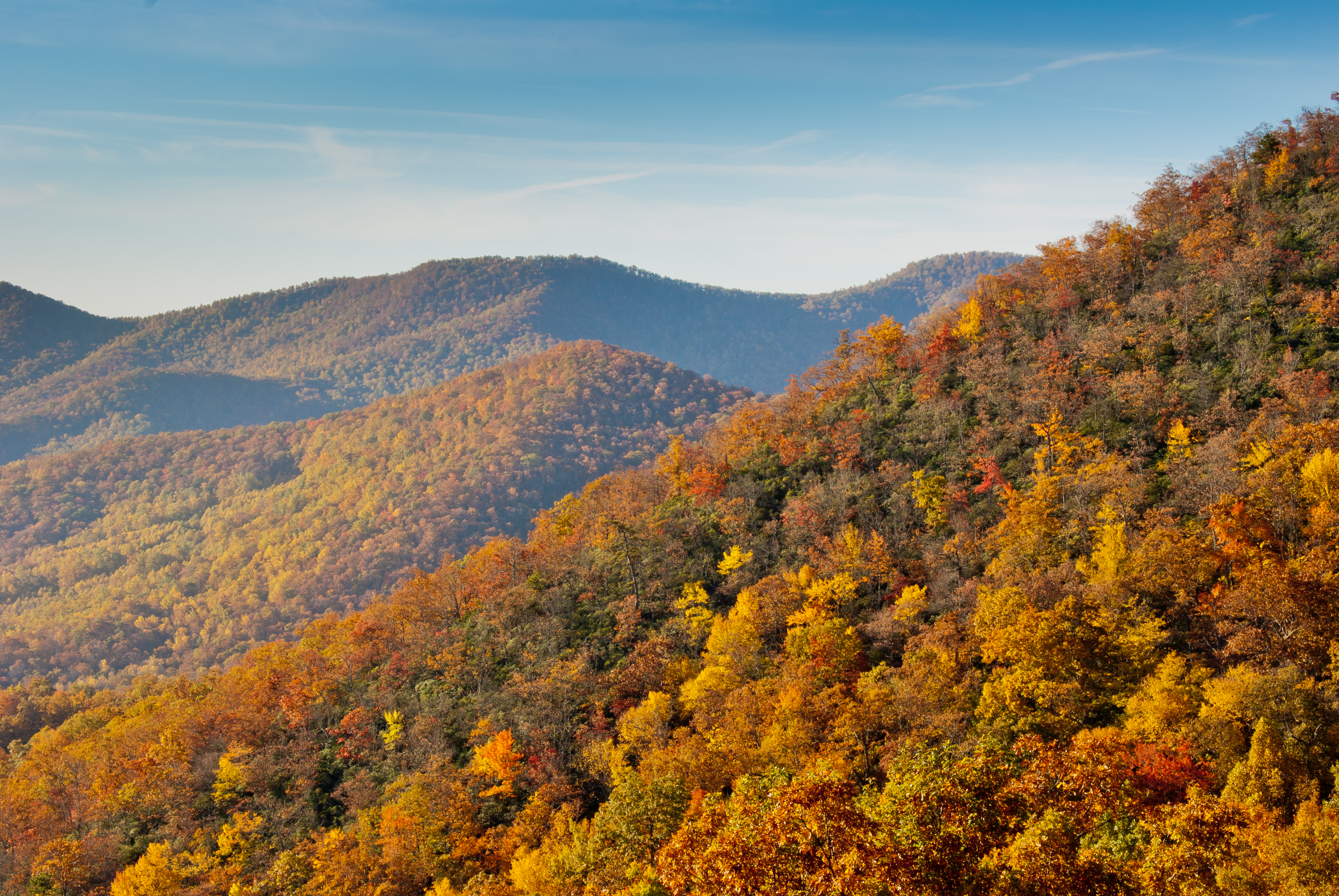 Fall colors from the Blue Ridge Parkway just south of Ashville